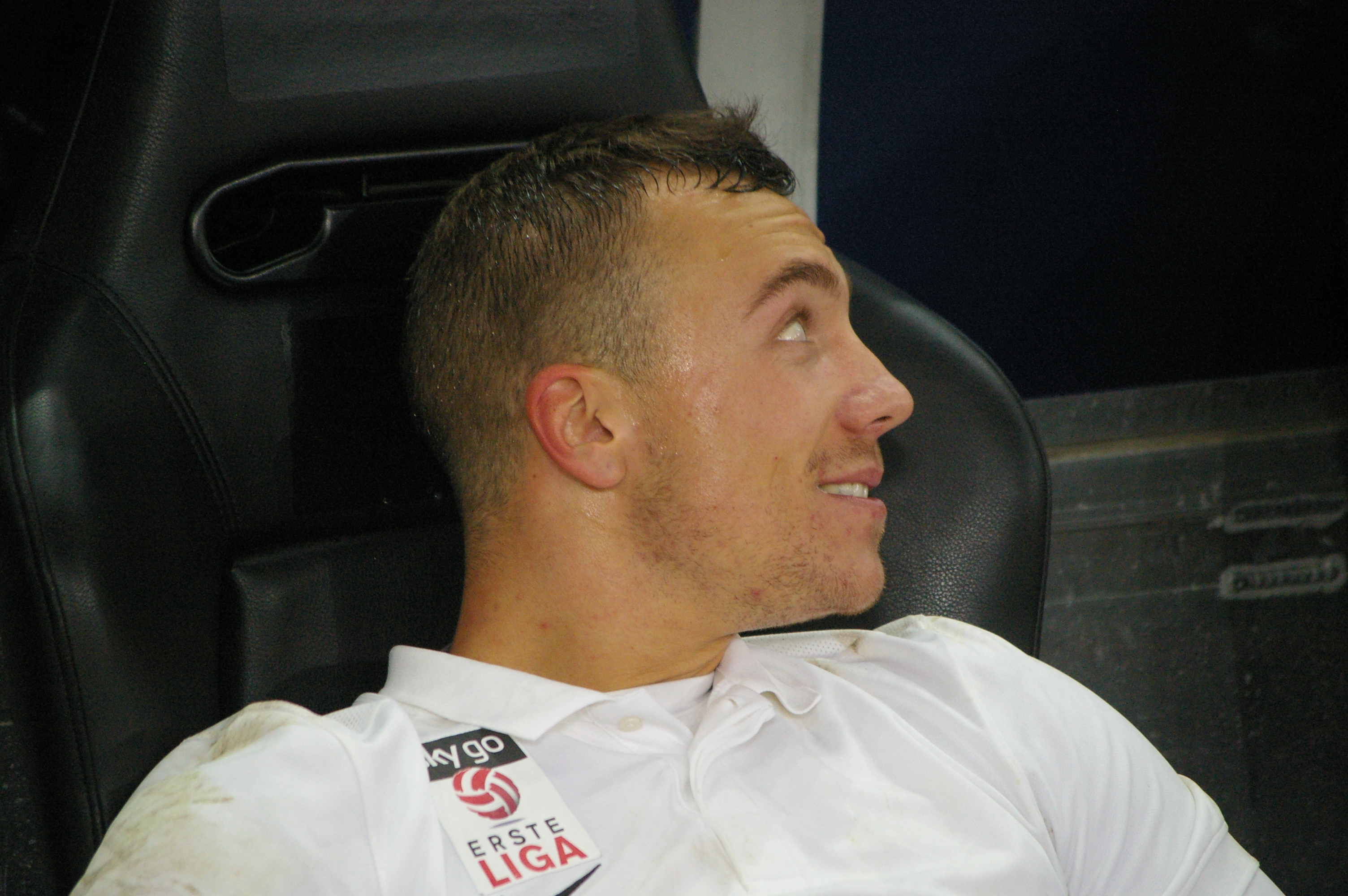 league match Austria 2nd league